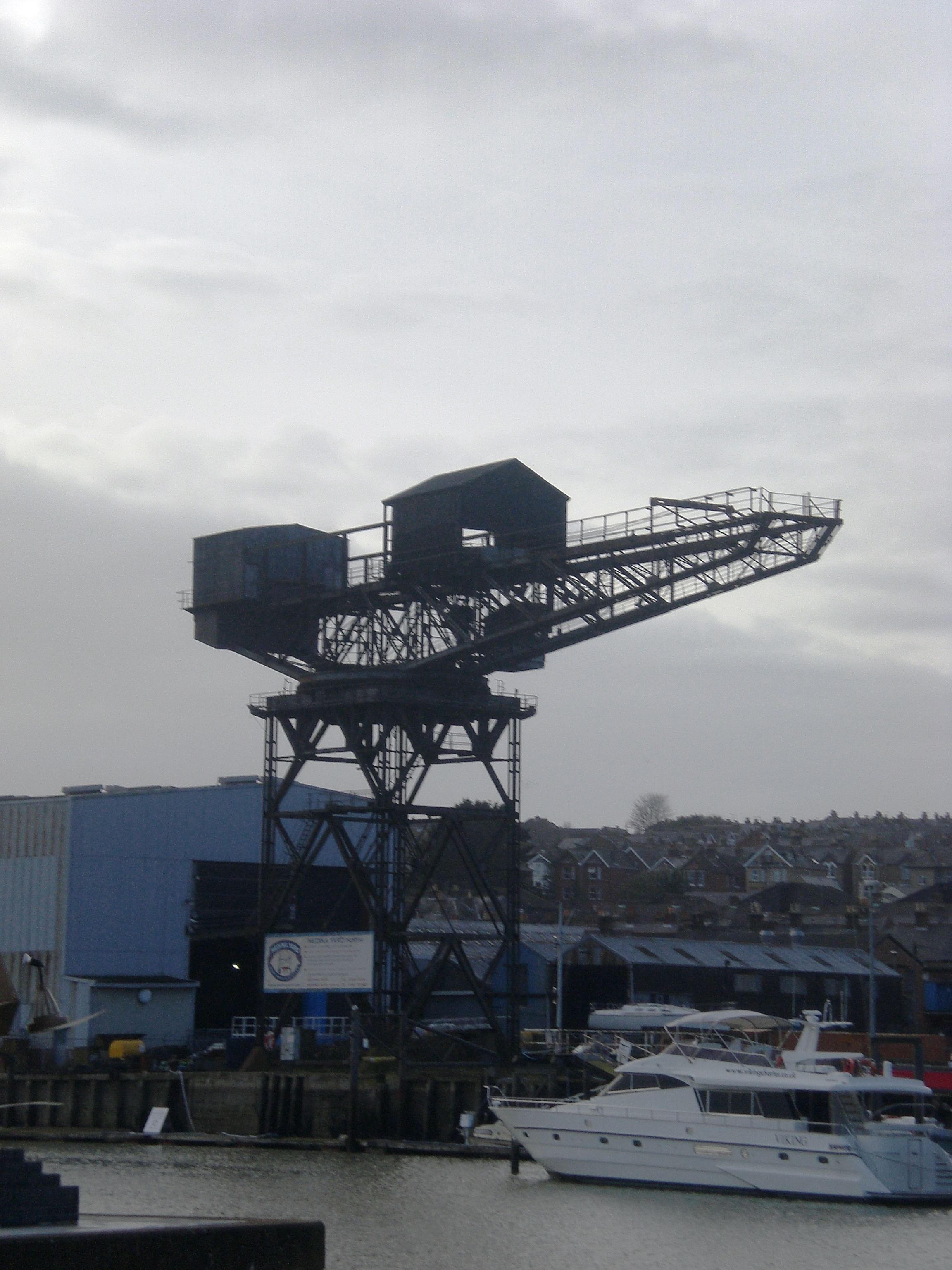 Cowes Hammerhead Crane, on Cowes seafront.